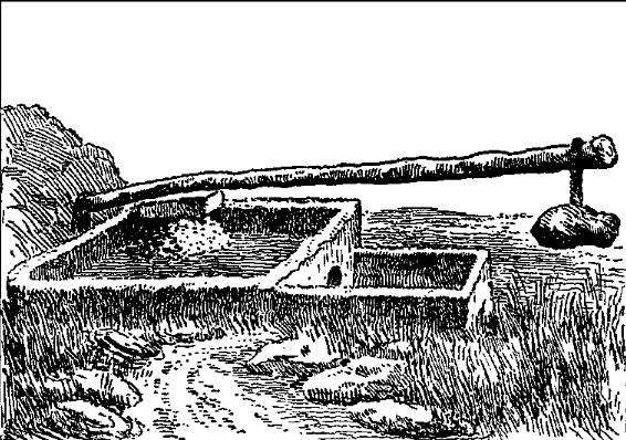 An illustration from the Encyclopaedia Biblica, a 1903 publication which is now in the public domain. Fig. 2 for article "Wine and Strong Drink". Image of a late 19th century wine press in use in Palestine.